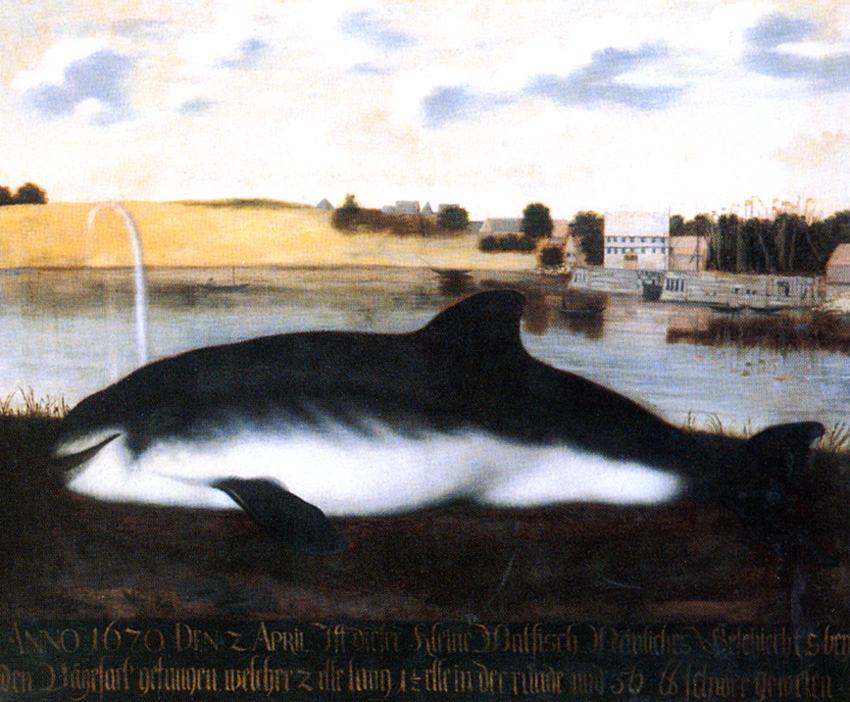 Painting, probably by the German painter Franz Wulfhagen (1624–1670), located in the museum of Schloss Schönebeck, Bremen, Germany. The picture shows a small whale stranded on the banks of the river Weser in 1670 at Lemwerder. The background shows the oldest known picture of Vegesack and its port.